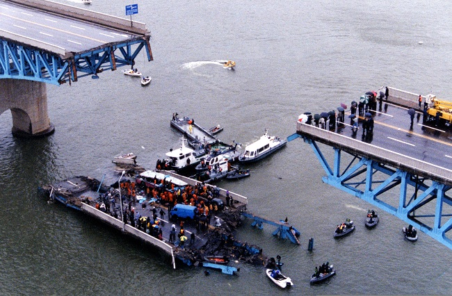 In 1994, following the collapse of seongsu bridge accident